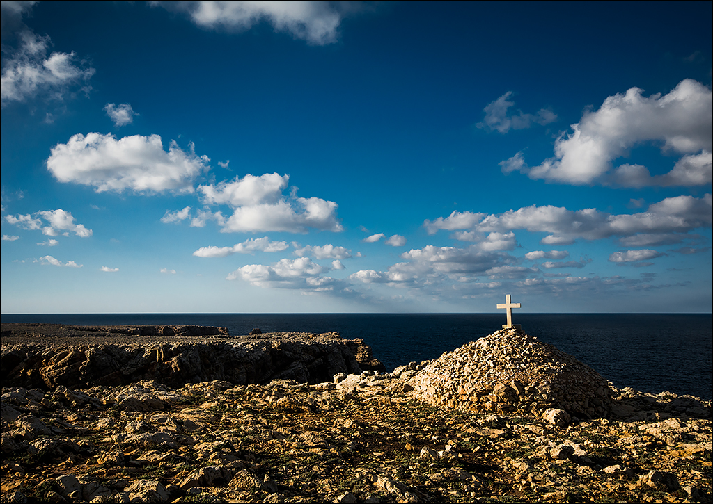 Codolar de Torrenova & "Général Chanzy" Memorial. For Codolar de Torrenova, see this article: (in Catalan); for "Général Chanzy," see this one: (in French); or this one: (in Spanish).